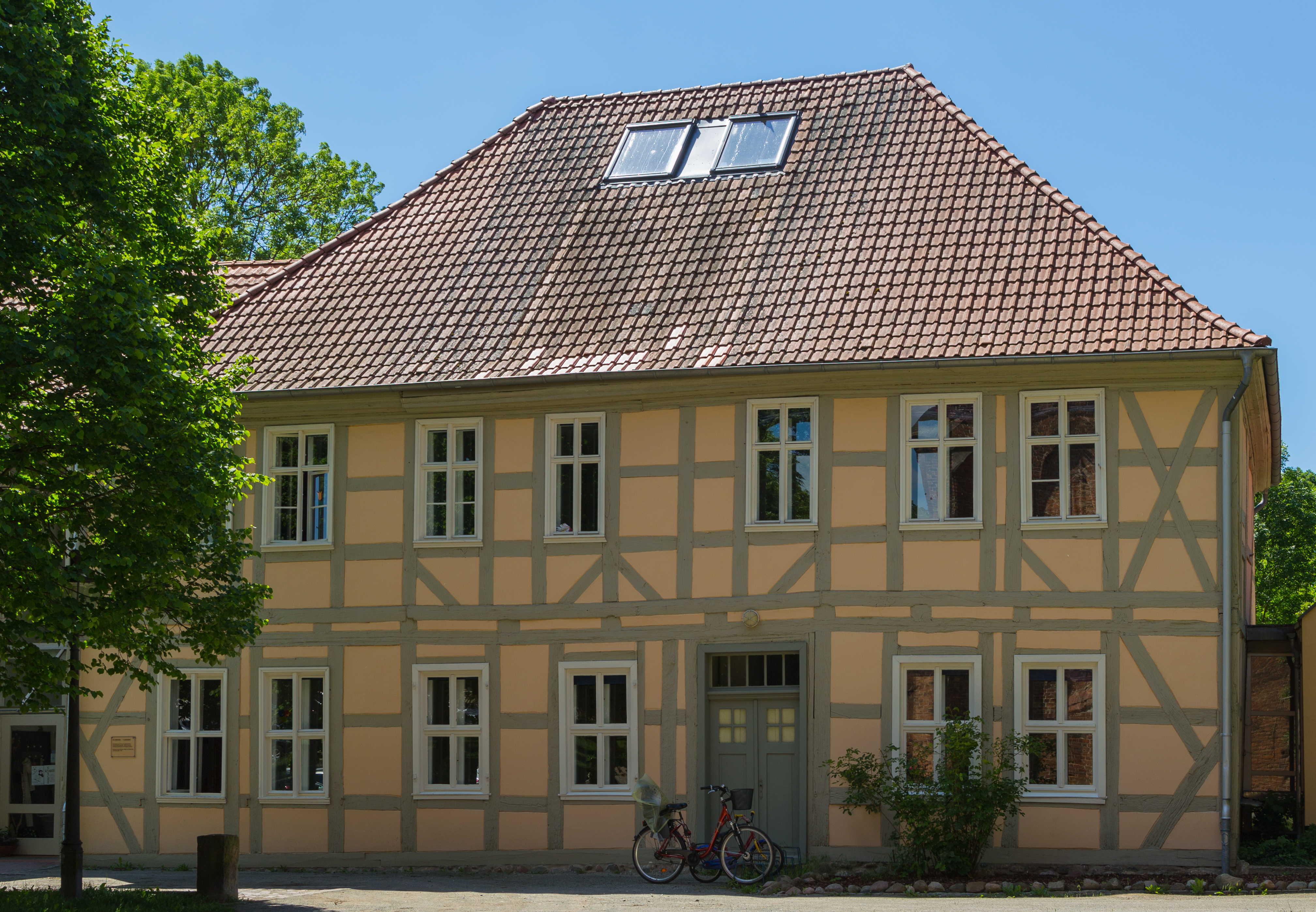 Former Protestant rectory (Alte Oberpfarre), 13 Timber Market (Holzmarkt 13) in Gardelegen, Altmarkkreis Salzwedel, Saxony-Anhalt, Germany. The timber framed building is a listed cultural heritage monument.